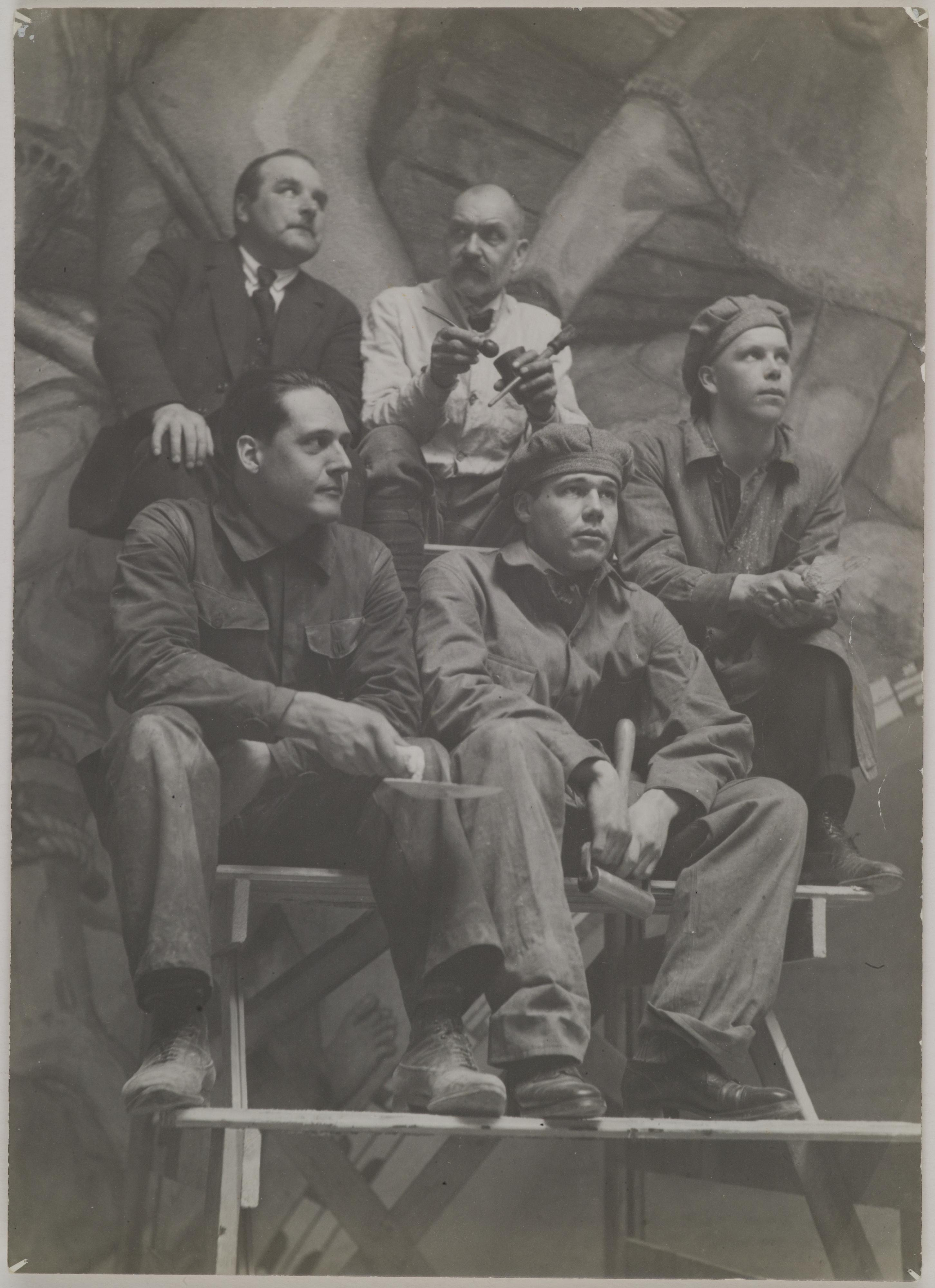 Ryhmäkuva Kansallismuseon freskotyömaan maalaustelineillä Helsingissä 1928. Takana museon vahtimestari Kivistö ja Akseli Gallen-Kallela, edessä vasemmalla Jorma Gallen-Kallela vieressään Nils Wikberg ja tuntematon apulainen. Gallen-Kallela työryhmineen maalasi keväällä 1928 Kansallismuseoon Kalevala-aiheiset kattofreskot. Hän oli maalannut vastaavat työt jo Pariisin maailmannäyttelyn Suomen paviljonkiin vuonna 1900. Neljästä freskosta kolme, Ilmarinen kyntää kyisen pellon, Sammon taonta ja Sammon puolustus, säilyivät aiheiltaan samoina, mutta Suuri hauki -fresko korvasi Kansallismuseossa Pariisin paviljongin Pakanuus ja kristinusko -aiheen. Myös Gallen-Kallelan tyyli ehti välillä jonkin verran muuttua. kuvauspaikka: Helsinki ajoitus: 1928 kuvaaja: kuva-alan mitat: 178x129mm tekniikka: merkintöjä: inventointinumero: Kot. 1.a/167 kokoelma: Akseli Gallen-Kallelan valokuvakokoelma tutki lisää / explore further: Tiedätkö lisää tästä kuvasta? Kerro meille! Do you have information on this photo? Let us know!